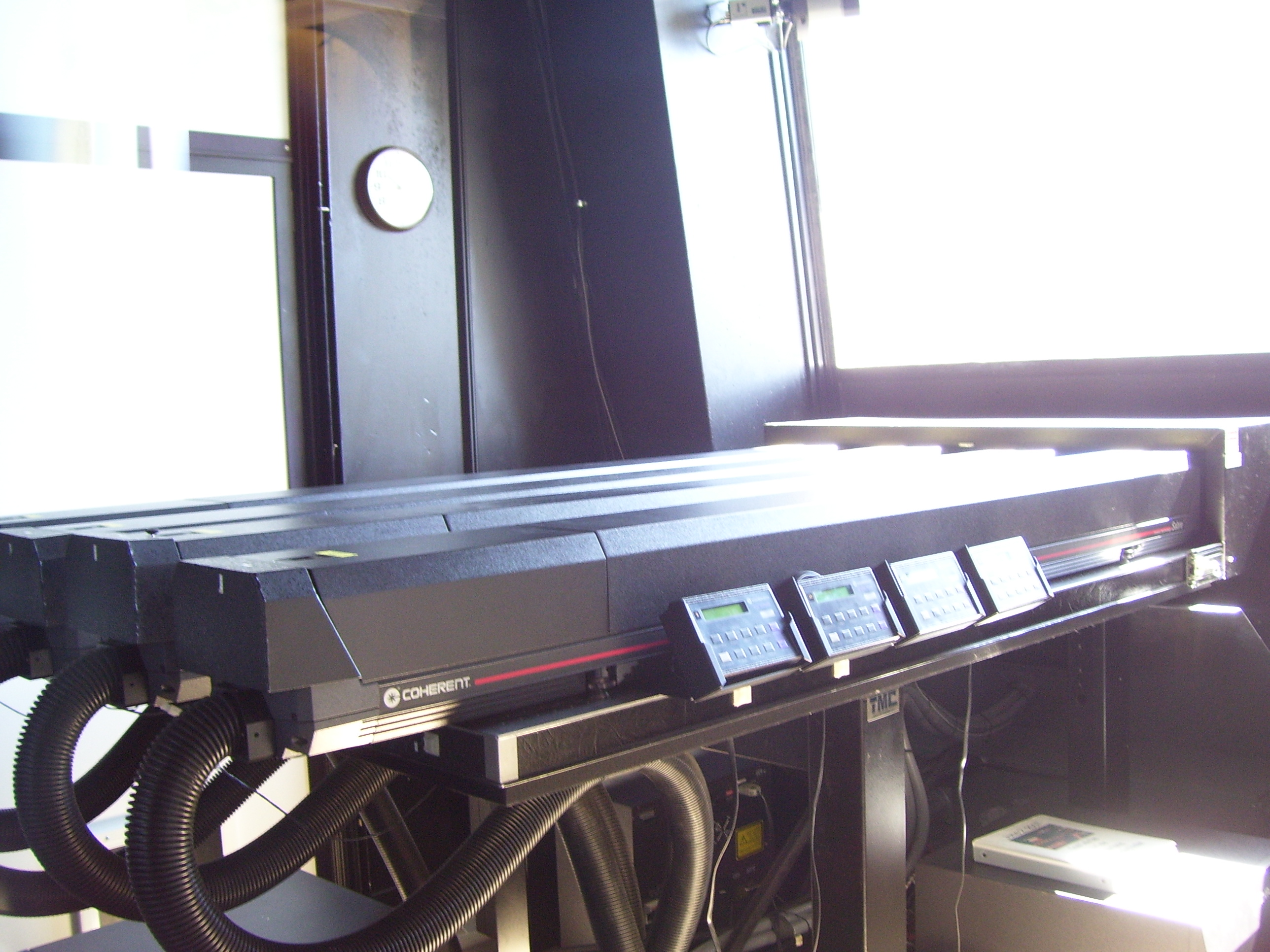 These are the four lasers (three visible, one out of frame to the left) used to produce the laser show on the Grand Coulee Dam. The lasers are projected from the visitors center.